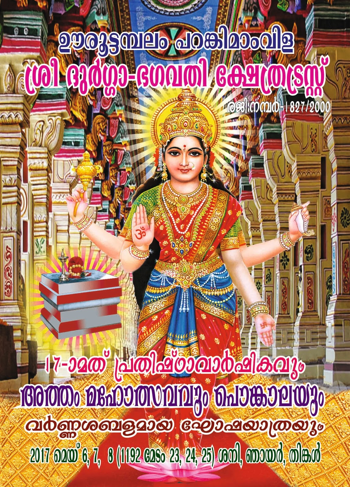 Ooruttambalam Parankimamvila Durgabhagavathi Temple